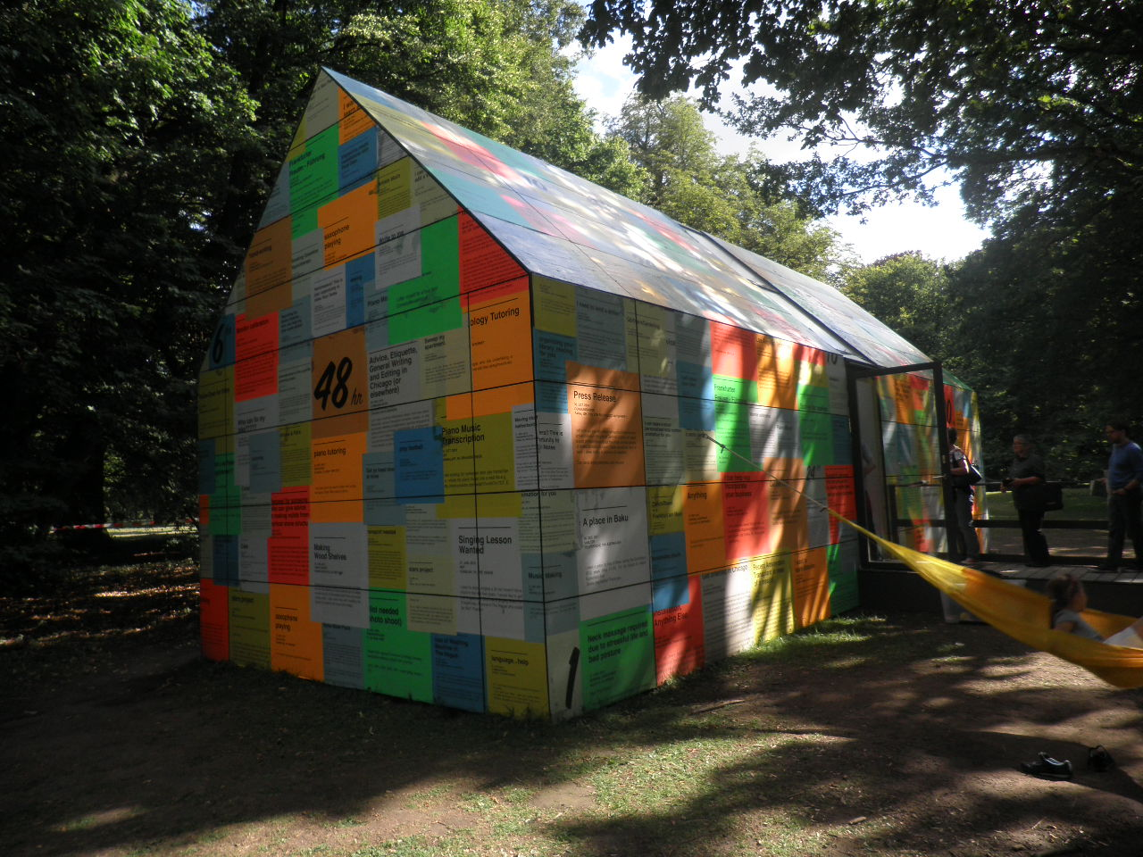 Time Bank. e-flux Julieta Aranda (Mexico City 1975) & Anton Vidokle (Moscow 1965). Karlsaue Park, Kassel